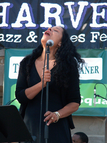 Molly Johnson